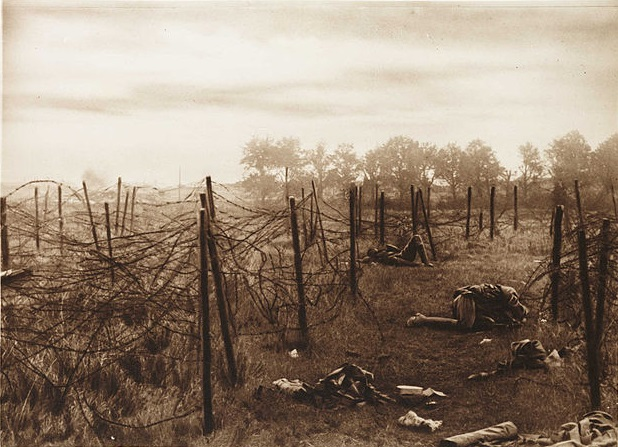 The gaps in the wire near Anvil Wood through which the 53rd Battn. rushed the machine gun posts on Aug 31st 1918 were death traps. Collection of National Media Museum (Frank Hurley/Australian War Records Section)